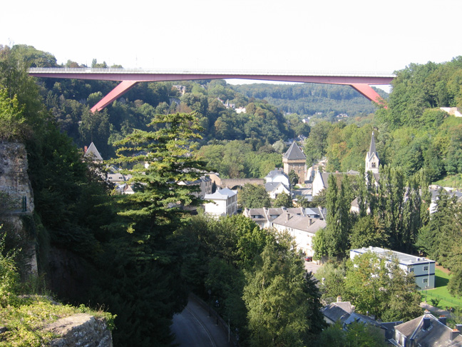 Photo of Pfaffental showing the Red Bridge, both (Mannsfeld?) towers and the parish church, taken from three tower gate